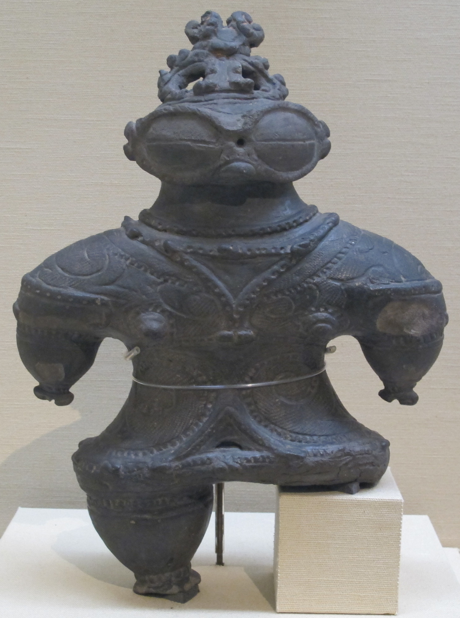 Goggle-eyed dogū. Kamegaoka, Aomori prefecture. Final Jōmon (1000-300 BCE). Tokyo National Museum. H. 34.8 cm. Important Cultural Property. Ref. : Simon Kaner (dir.), The Power of DOGU : Ceramic Figures from Ancient Japan, London, The Trustees of the British Museum, 2009, 175 p. (ISBN 978 0 7141 2464). Page 124.